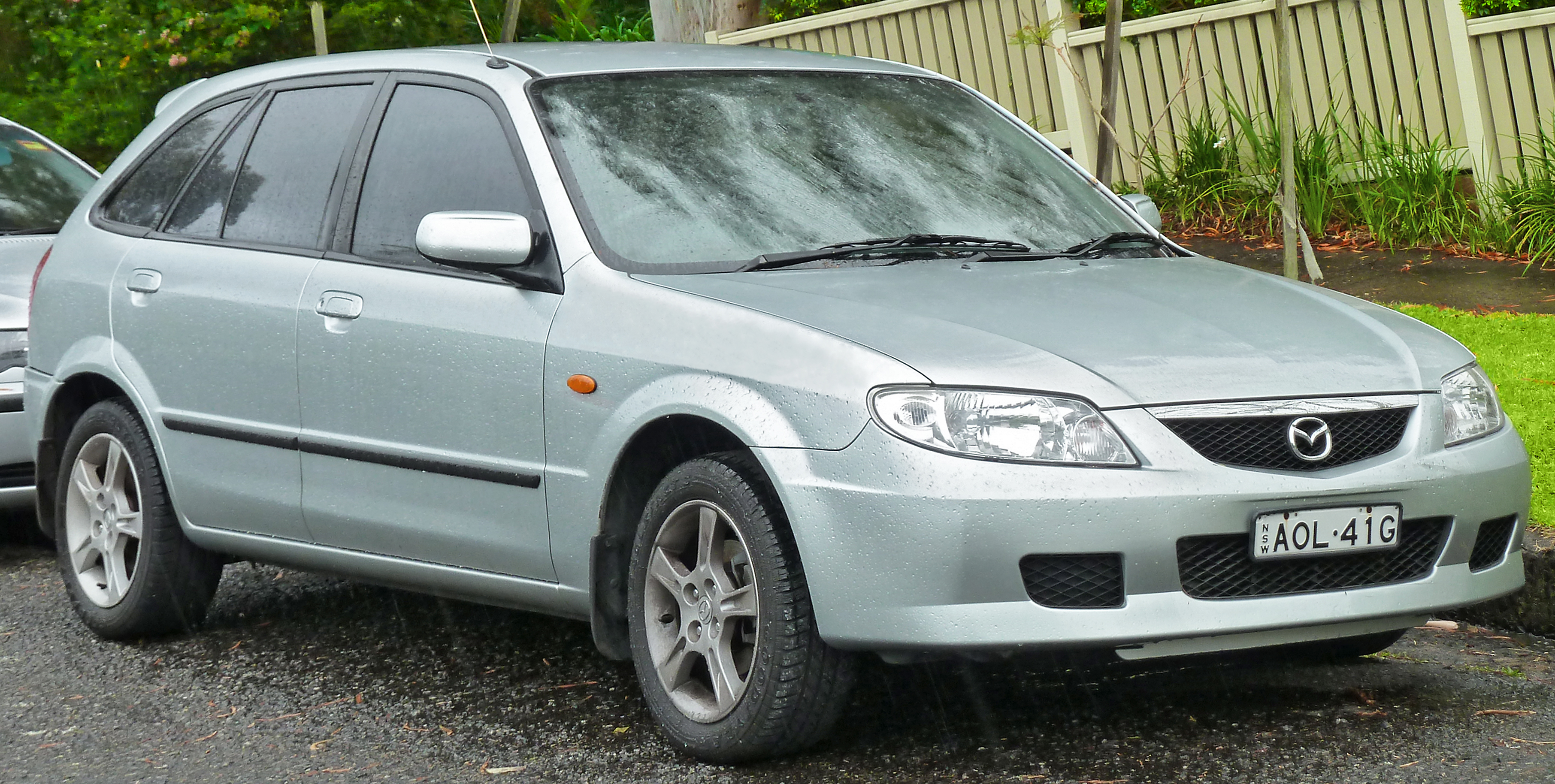 2003 Mazda 323 (BJ II) Astina Shades 5-door hatchback. Photographed in Roseville, New South Wales, Australia.